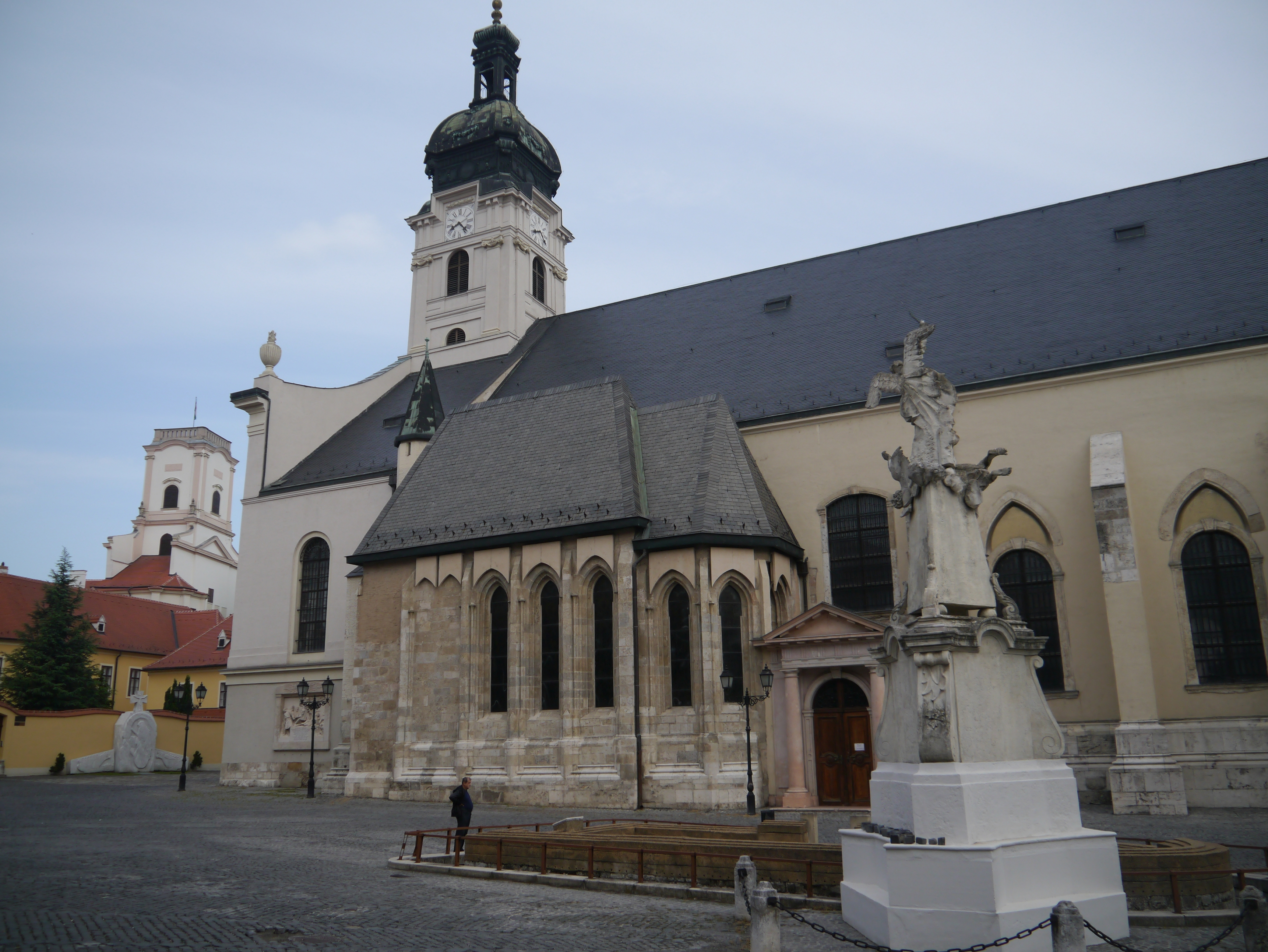 Cathedral St. Mary Assumption, Györ, Western HungarySzent Mihály-szobor (ismeretlen szobrász, Oláh Szilveszter (restaurátor), 1764, barokk) - Győr, Apor Vilmos püspök tere